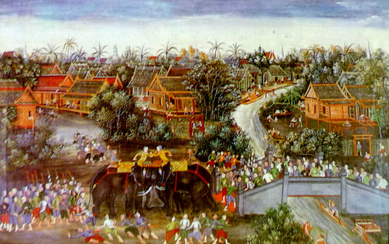 A painting created in 1887 at the behest of King Chulalongkorn, depicting the event in which two sons of King Intharacha fought each other to the death on elephants at Pa Than Bridge. The painting is now in the Warophat Phiman Hall, Bang Pa-In Royal Palace.